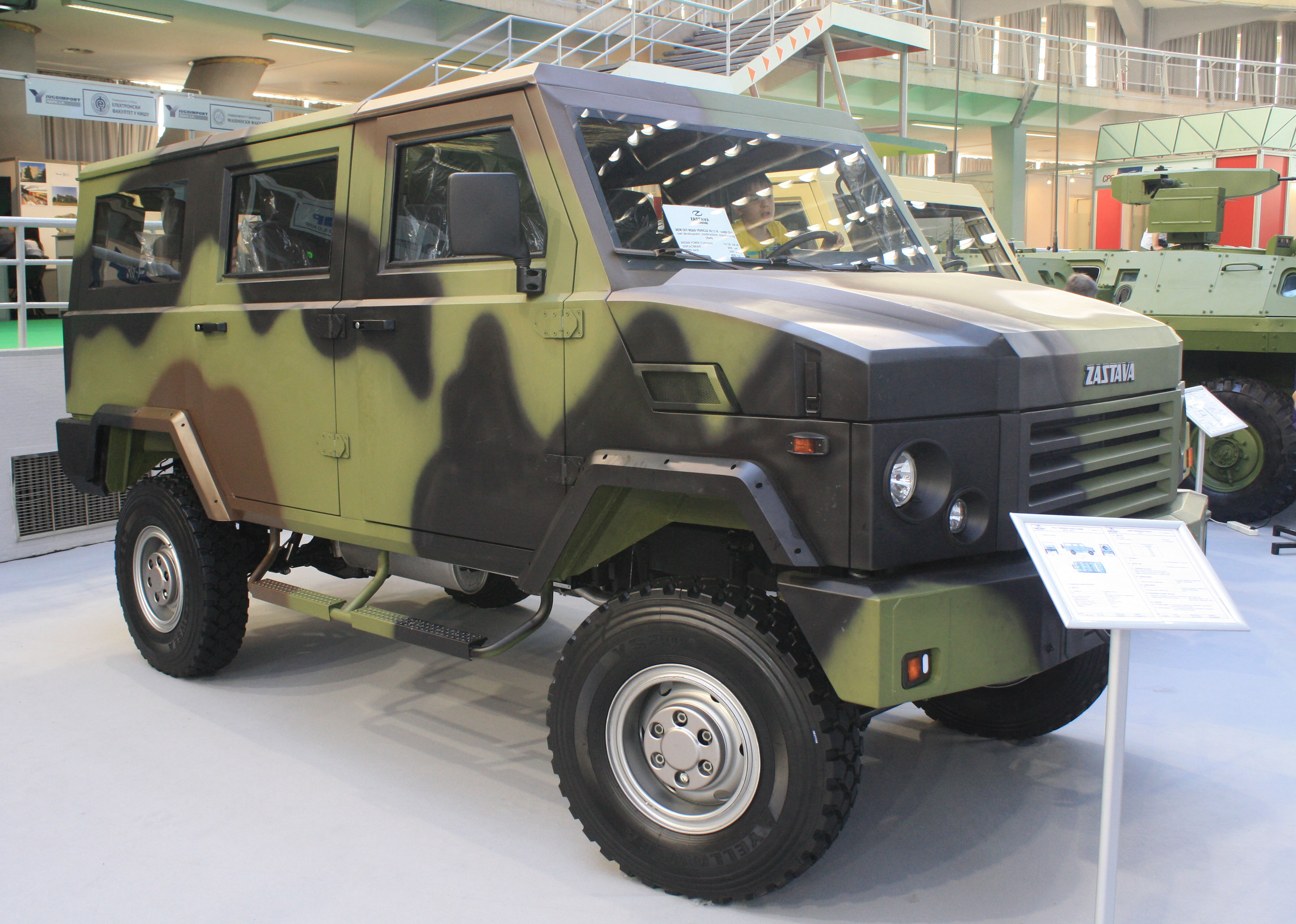 New military truck from Zastava Trucks, NTV PT 40.13H in 8+1 van configuration on display at Partner 2013 military fair.